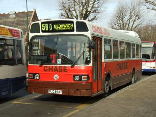 A Chase Bus Services Leyland National.